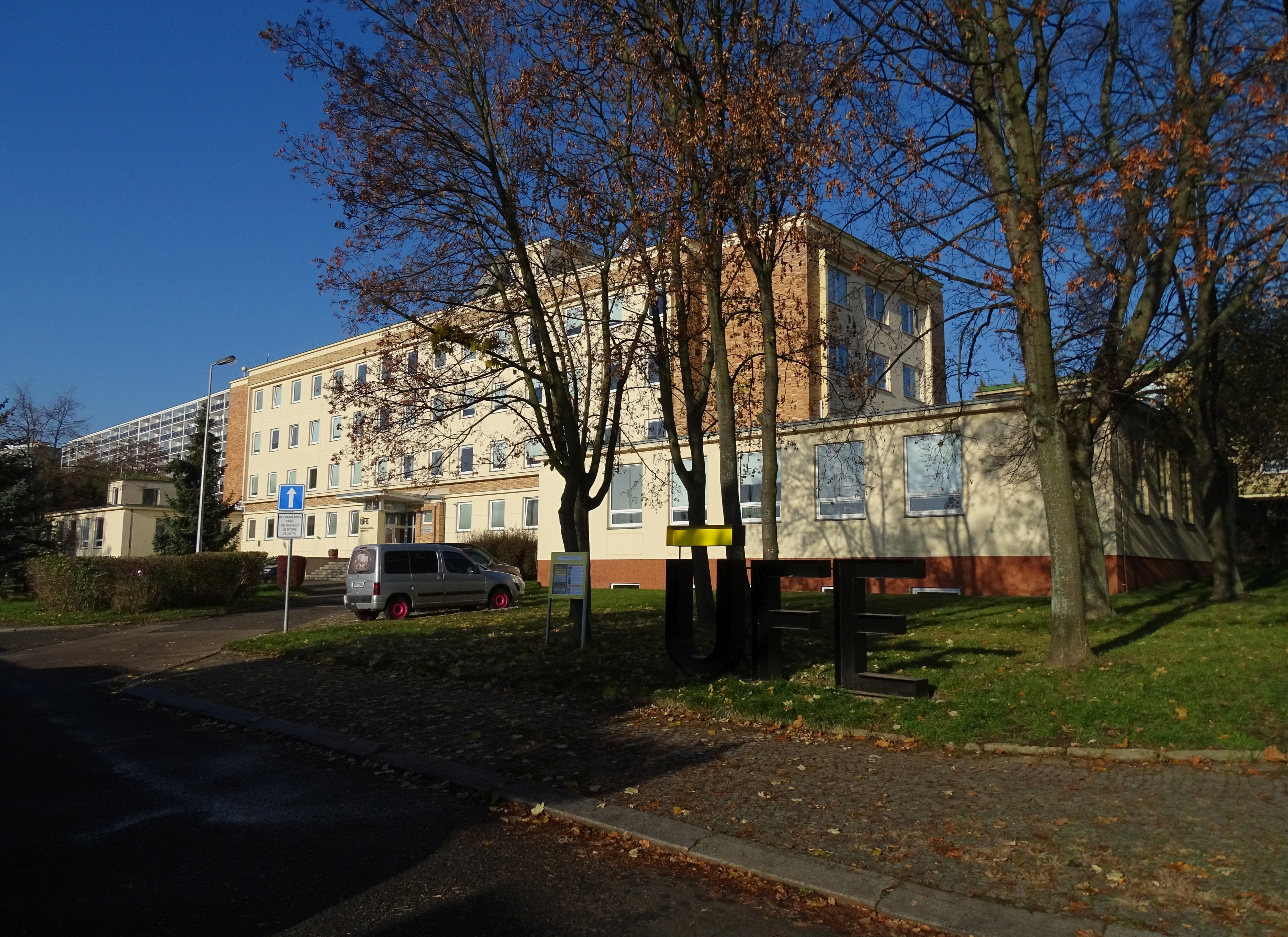 Prague-Kobylisy, Czechia. Chaberská 1014/57.